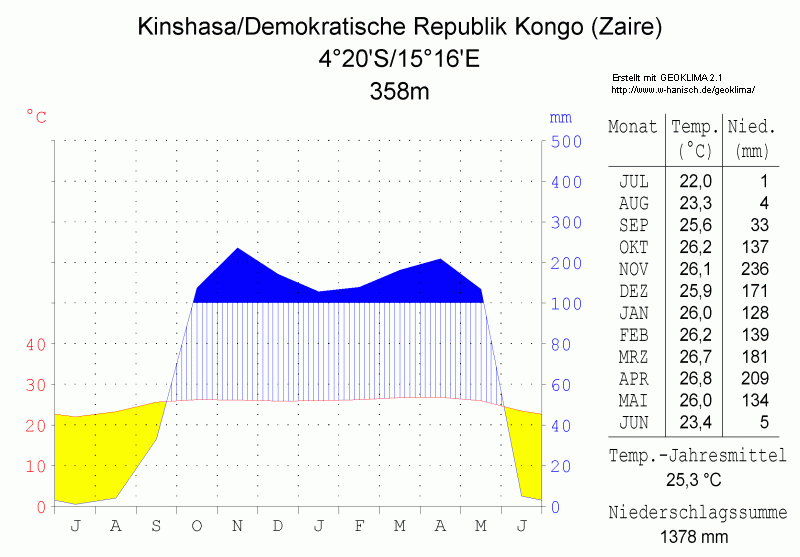 climate chart in the format by Walther and Lieth, metric, °Celsisus and millimeters, made with Geoklima 2.1